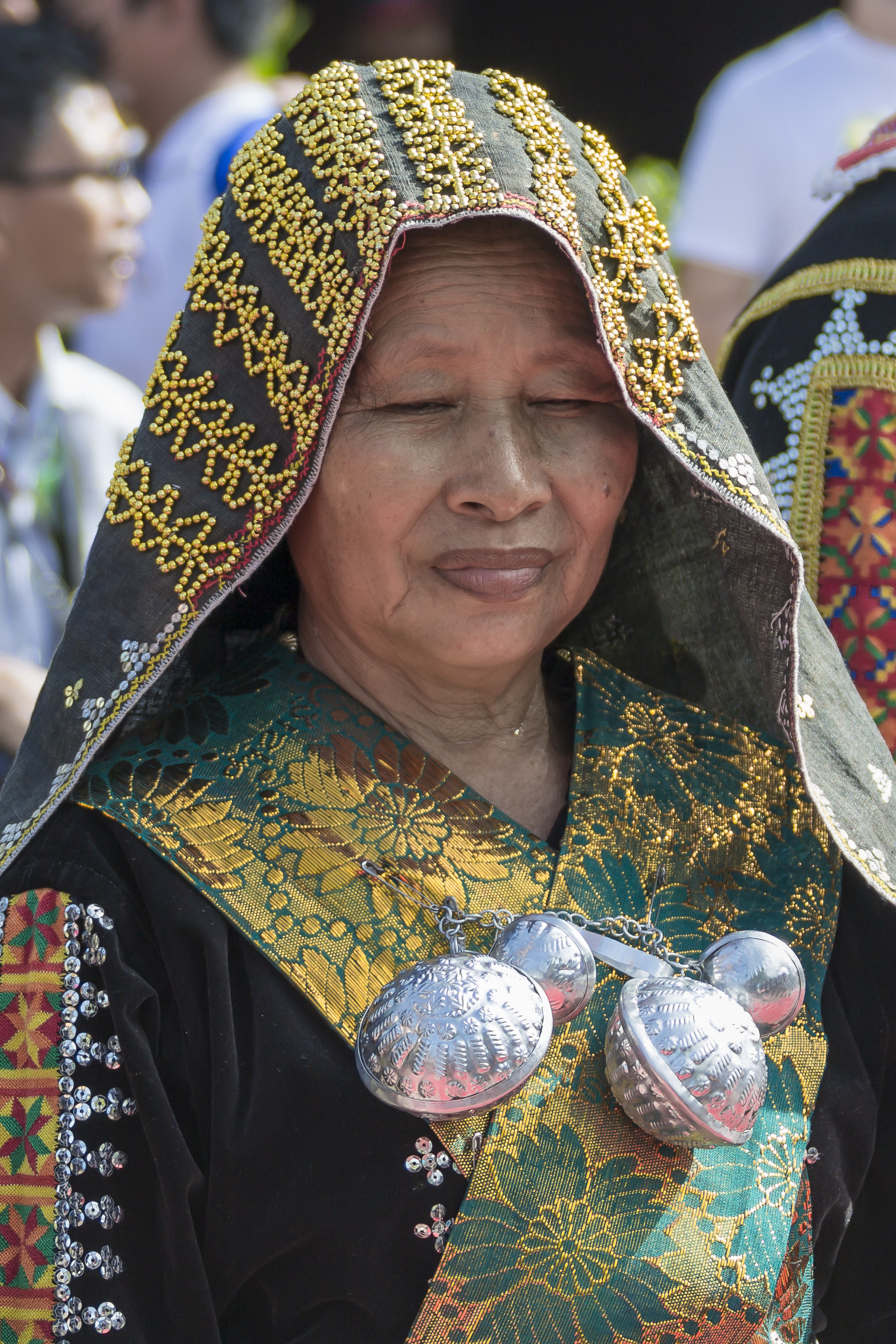 Penampang, Sabah: A bobohizan, a traditional Dusun priestess, from Dusun Tindal tribe. Photo taken during the opening ceremony of Kaamatan 2014 at Hongkod Koisaan, the unity hall of KDCA